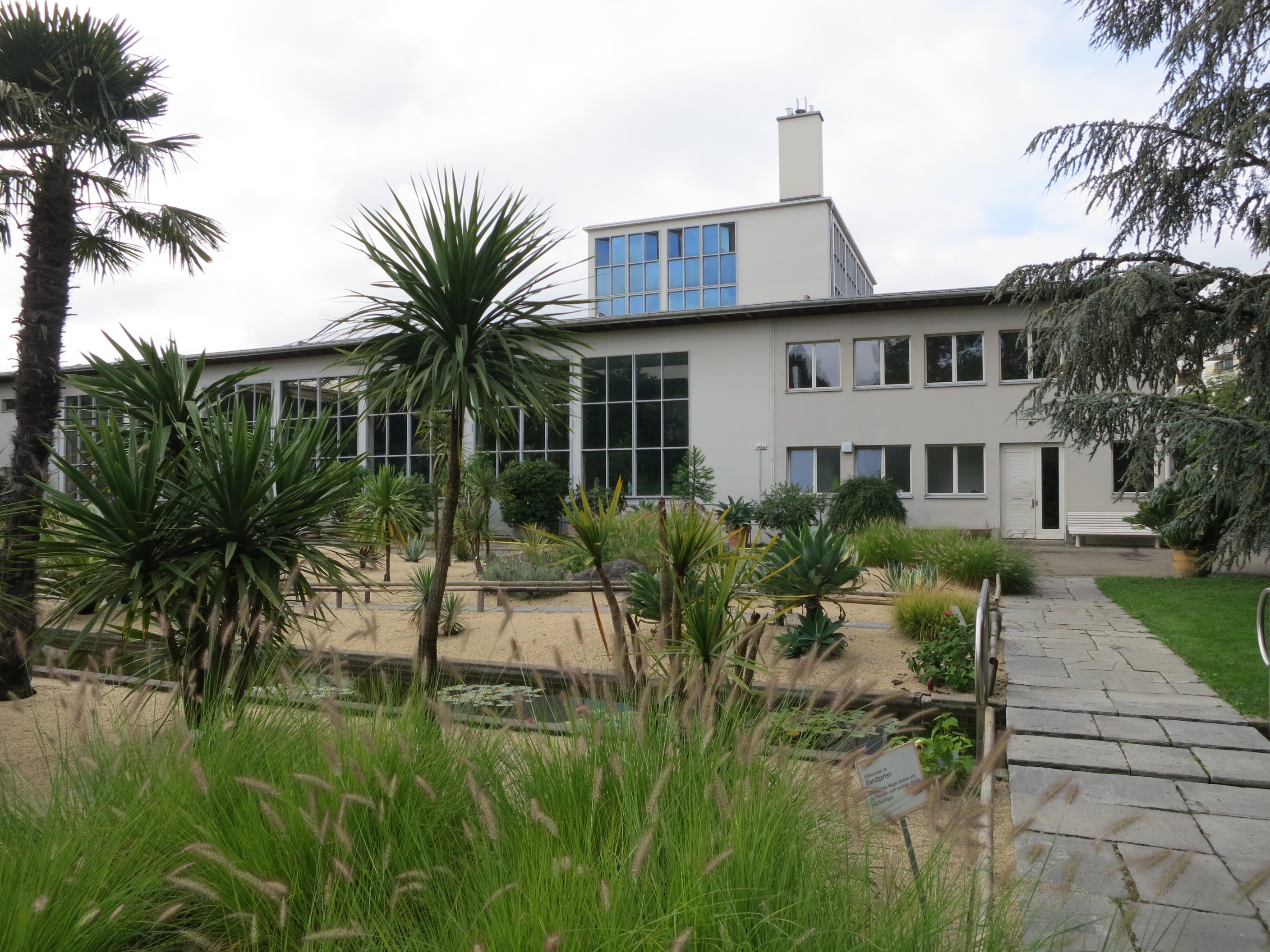 Stadtgärtnerei, Zürich-Albisrieden, Schweiz